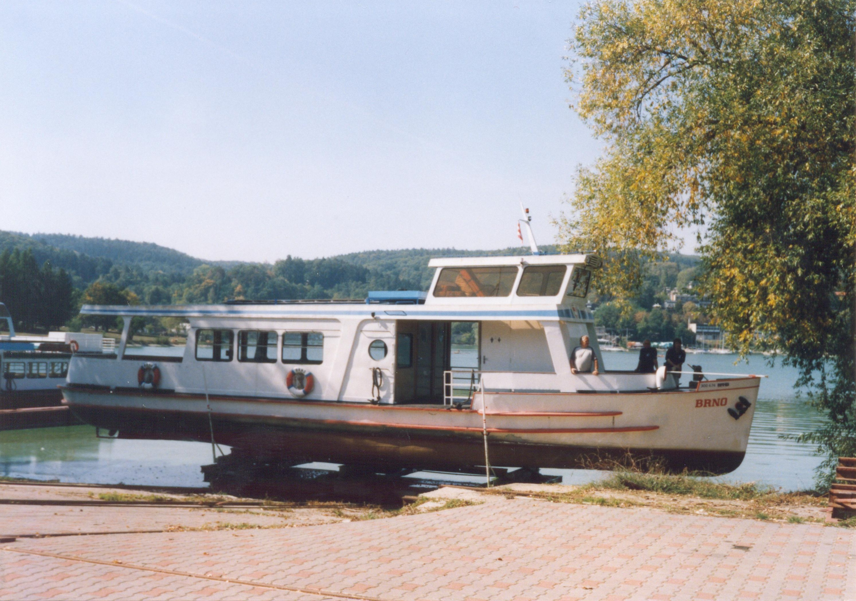 Ship Brno, Bystrc, Brno, Czech Republic